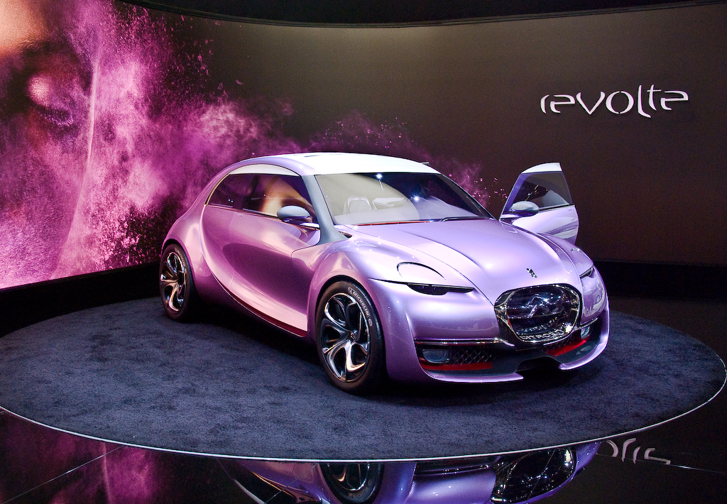 A luxury futuristic 2cv with a love seat in the back